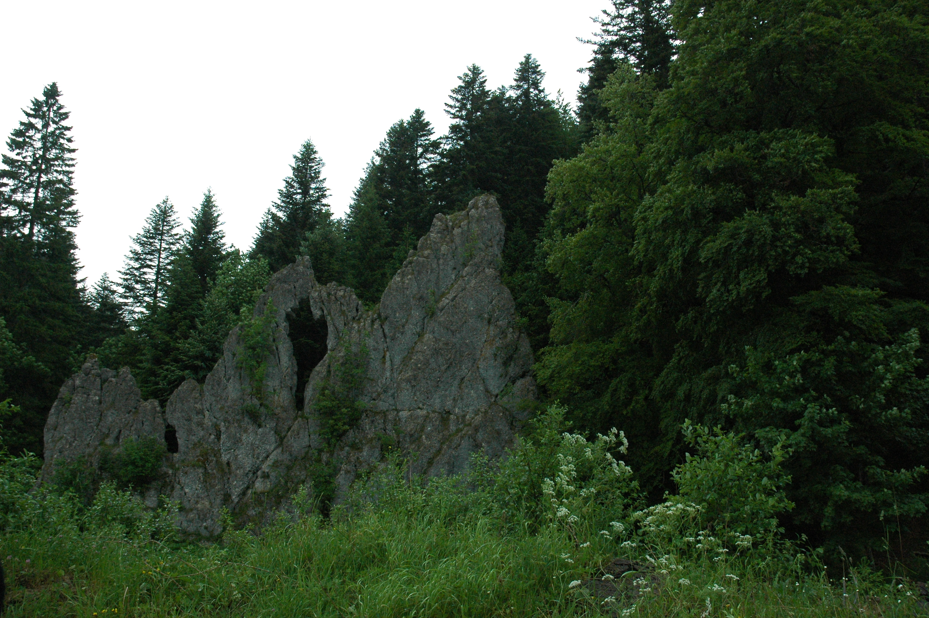 France, les dames des entreportes, stone